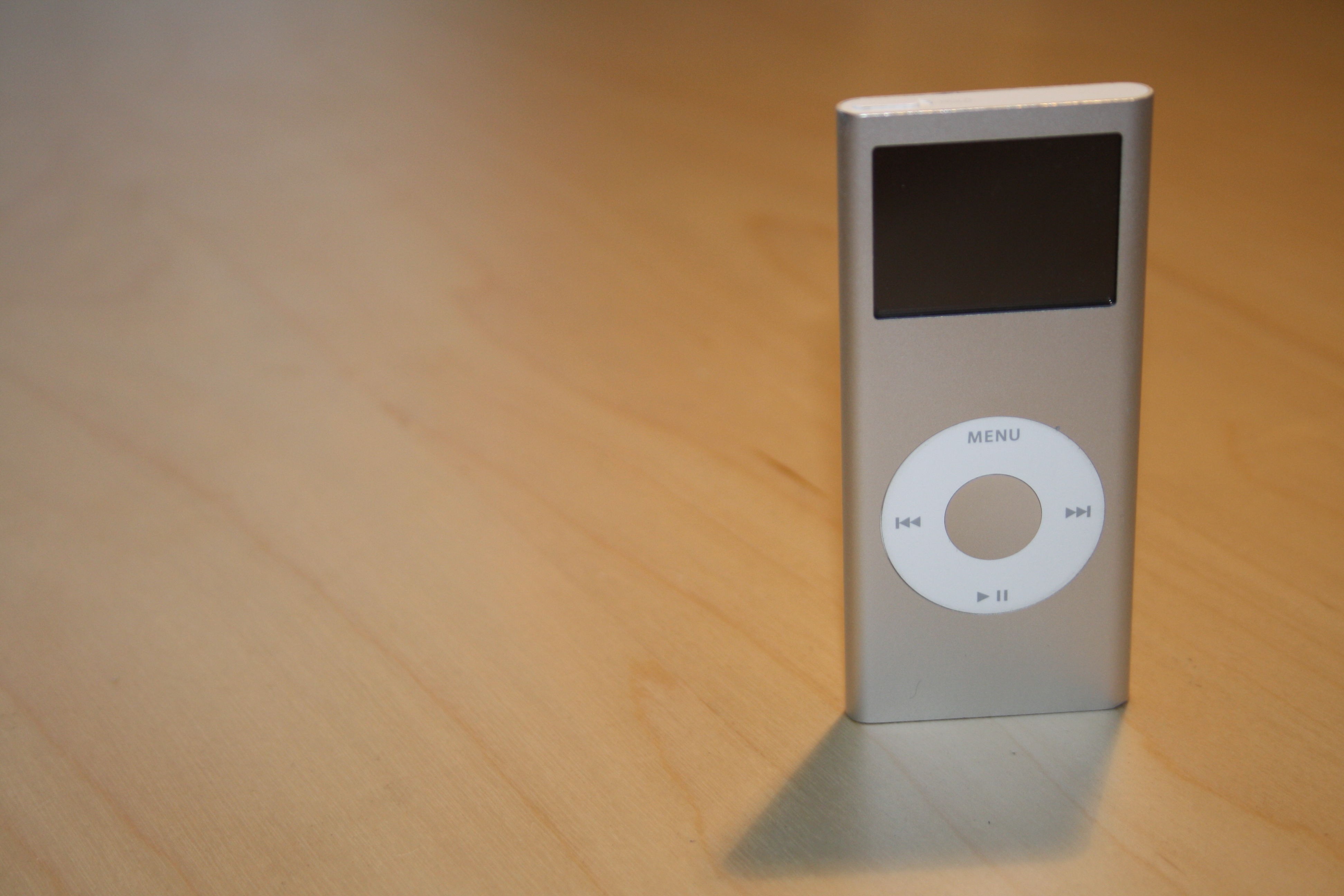 The track wheel of the second generation iPod Nano